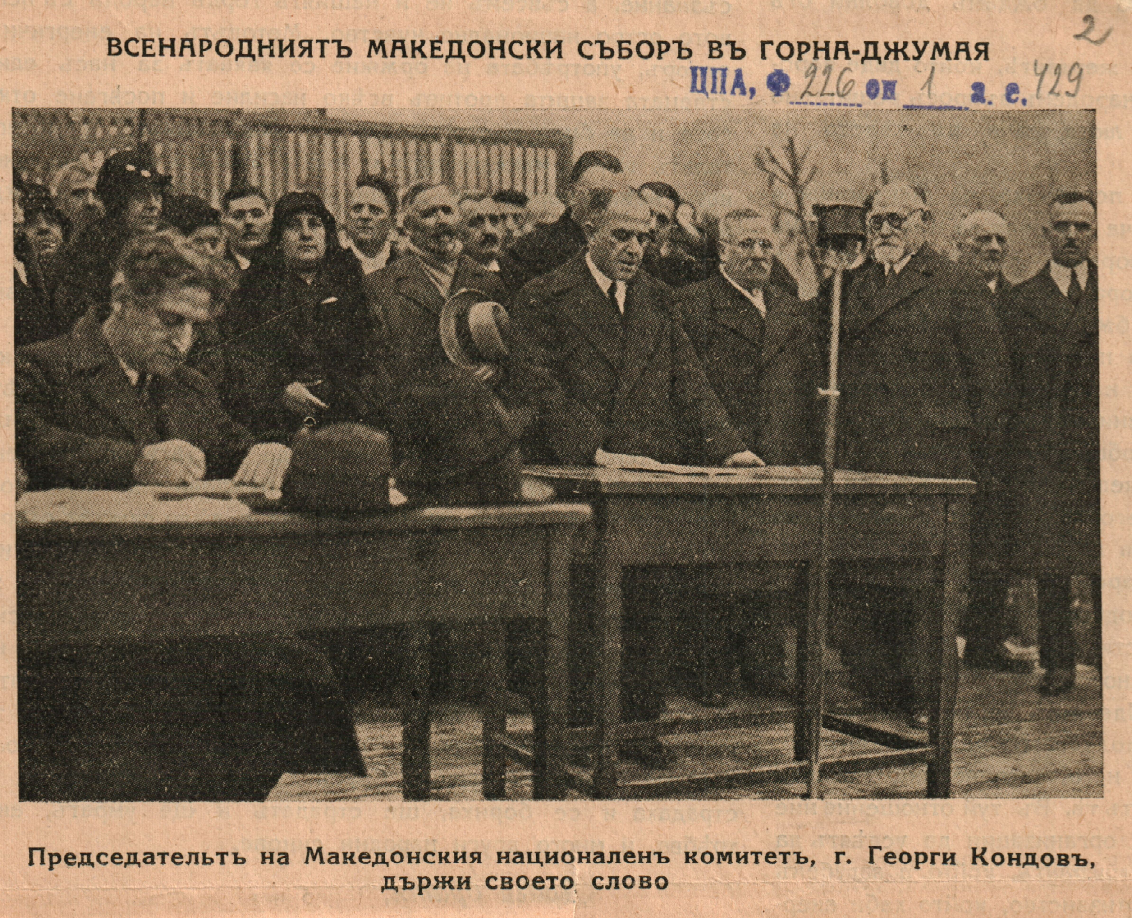 Photo from the Macedonian National Council, 1933 in Gorna Dzhumaya (Blagoevgrad).